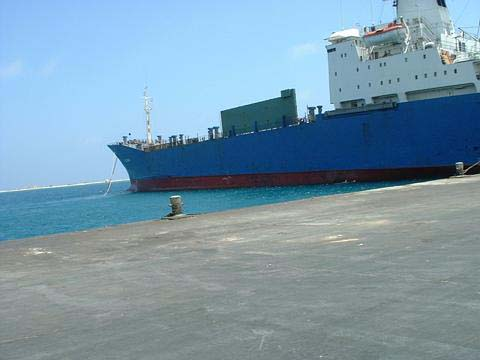 Docking ship in Berbera, Somalia